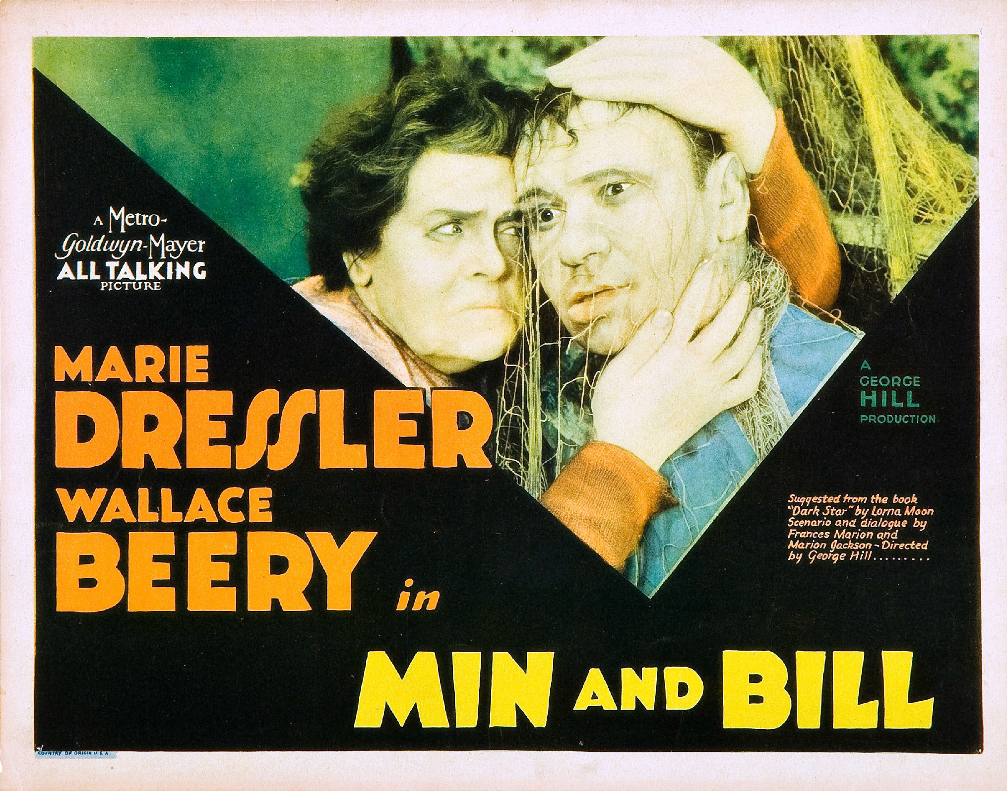 Lobby card for the 1930 film Min and Bill.